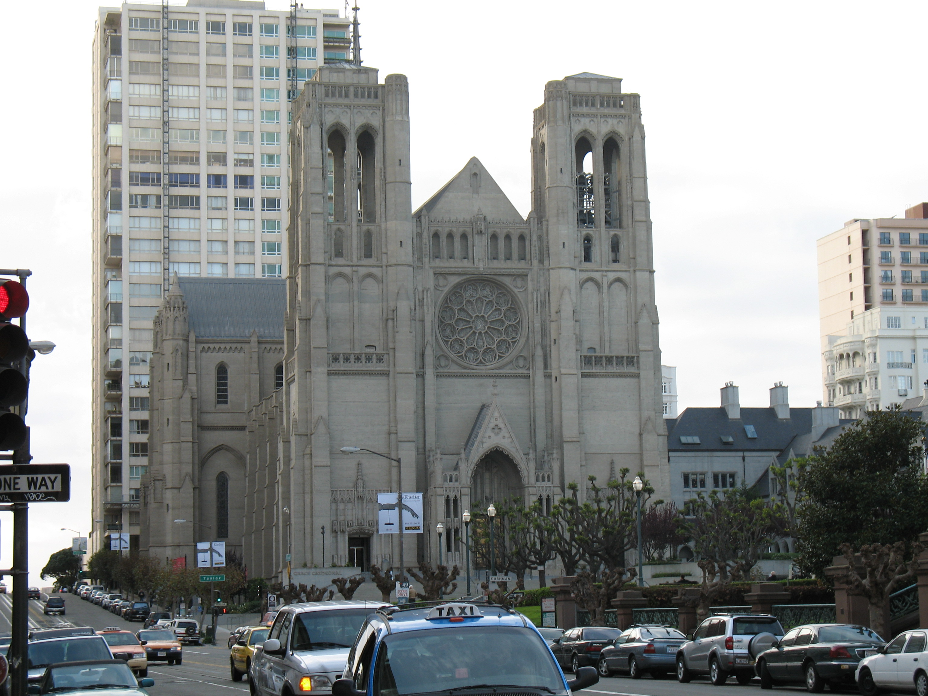 The Grace Cathedral. San Francisco, California